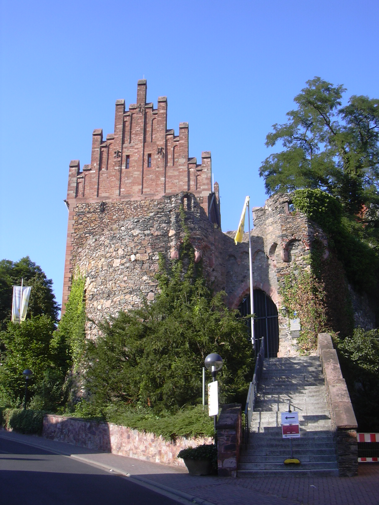 Alzenau Castle, old parts of building for servants, modified to court building; near Aschaffenburg, Bavaria/Germany